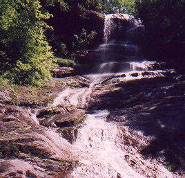 Beulach Ban falls Cape Breton Island my own photo Beulach Ban falls, North Aspy River, Cape Breton Highlands National Park